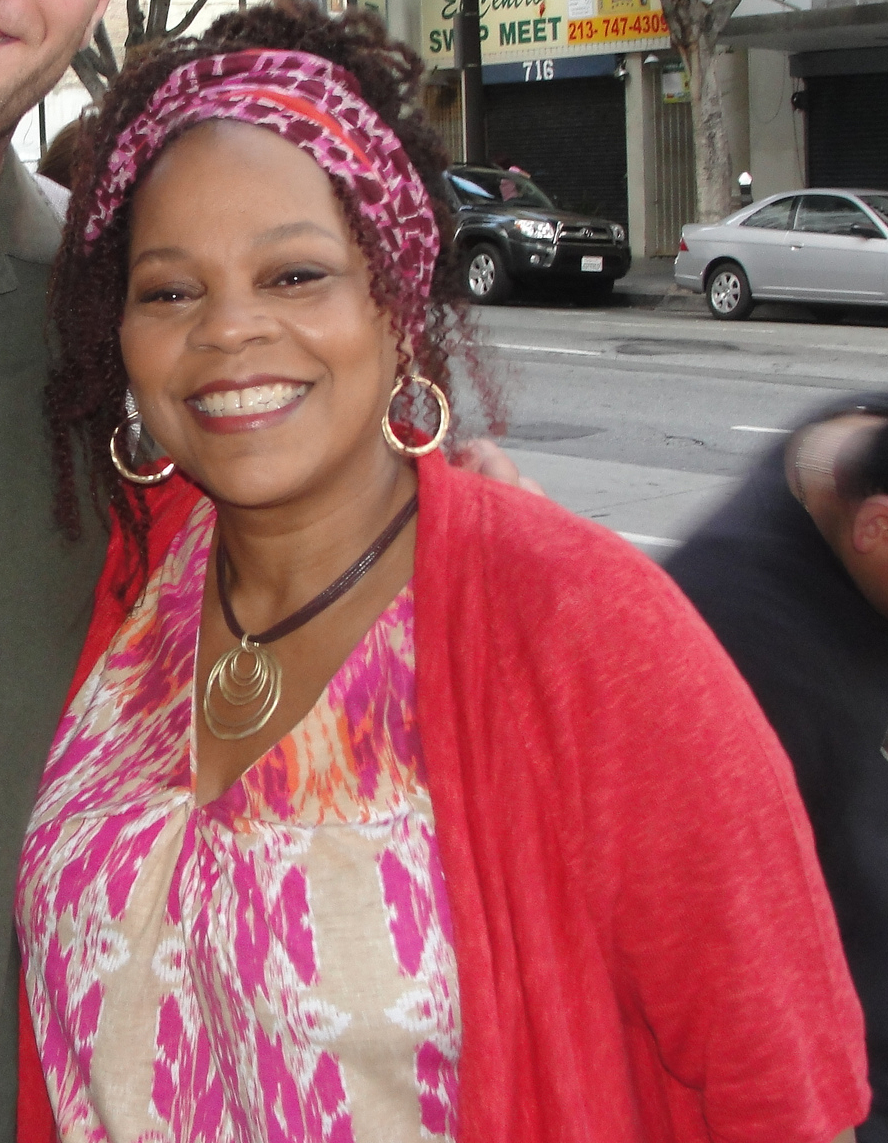 Weeds star Tonye Patano on the set.